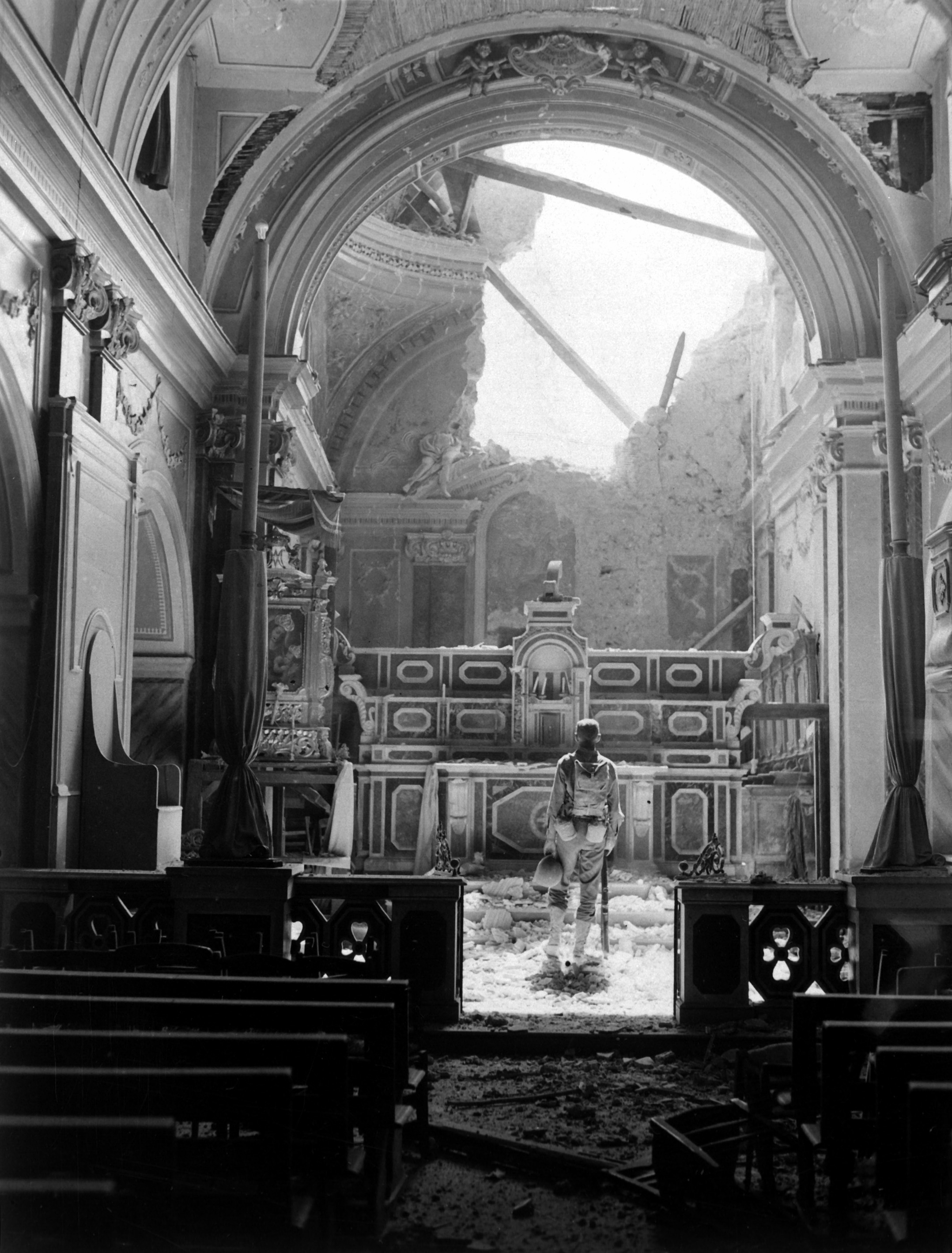 Pvt. Paul Oglesby, 30th Infantry, standing in reverence before an altar in a damaged Catholic Church. Note: pews at left appear undamaged, while bomb-shattered roof is strewn about the sanctuary. Acerno, Italy.